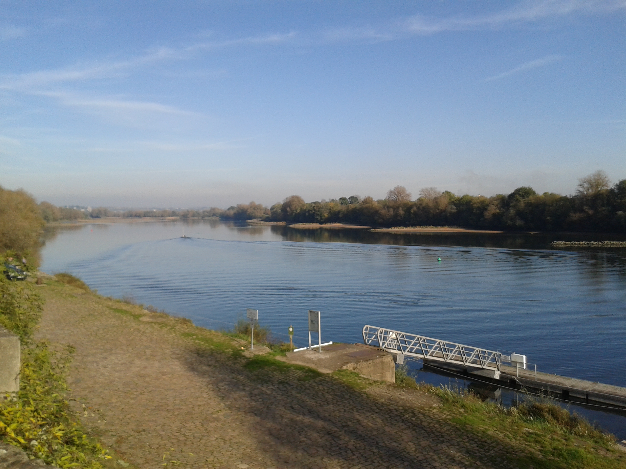 Along the Loire river (France) - city of Bellevue, Sainte-Luce-sur-Loire (44)